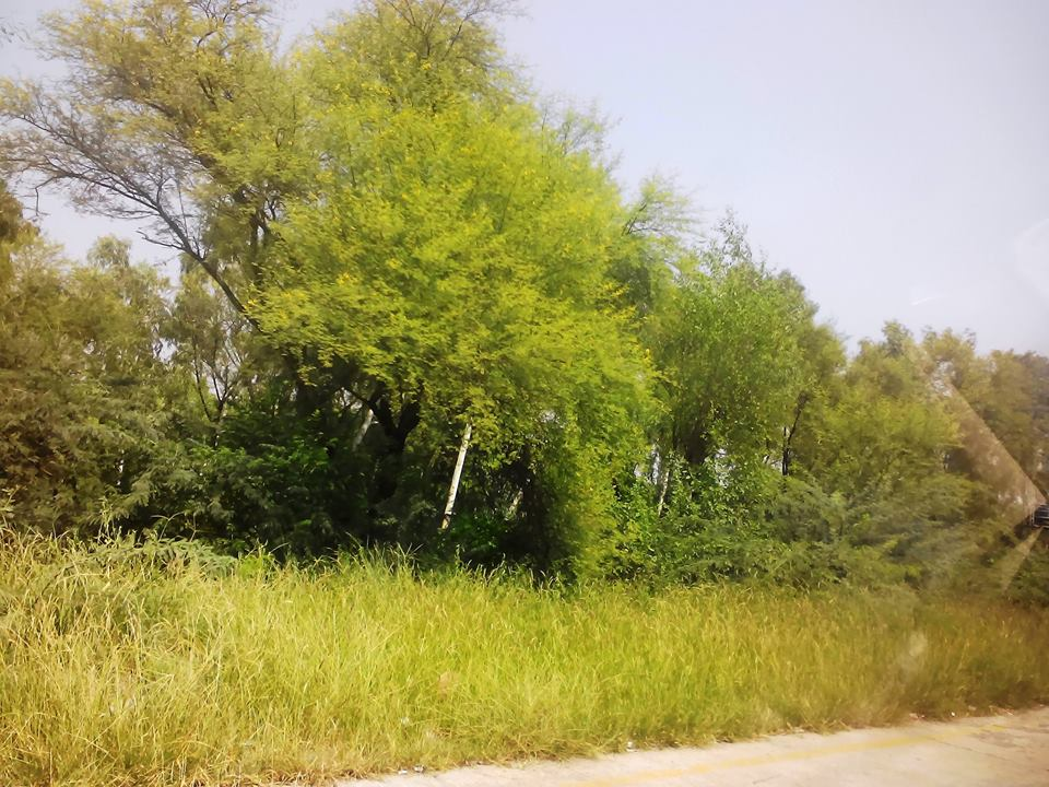 Scene in Golepur, Union Council and village in Pind Dadan Khan Tehsil.